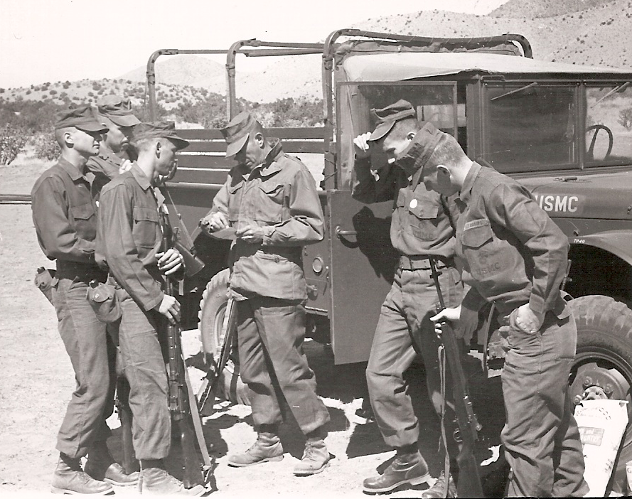 Field exercise of the University of New Mexico Naval Reserve Officer Training Corps on the military base complex south of Albuquerque, New Mexico. The exercise was led by Lieutenant Colonel Robert Haebel, USMC. Pictured (from left to right) are Midshipman Ross MacAskill, Midshipman Christopher Eng, Midshipman William Nyland, Master Sergeant Ernest Montoya, Midshipman Bruce Knutson, and Midshipman Steven Oder. Knutson became a Lieutenant General in 2000 commanding the Marine Corps Combat Development Command and General Nyland became Assistant Commandant of the Marine Corps from 2002 to 2005.